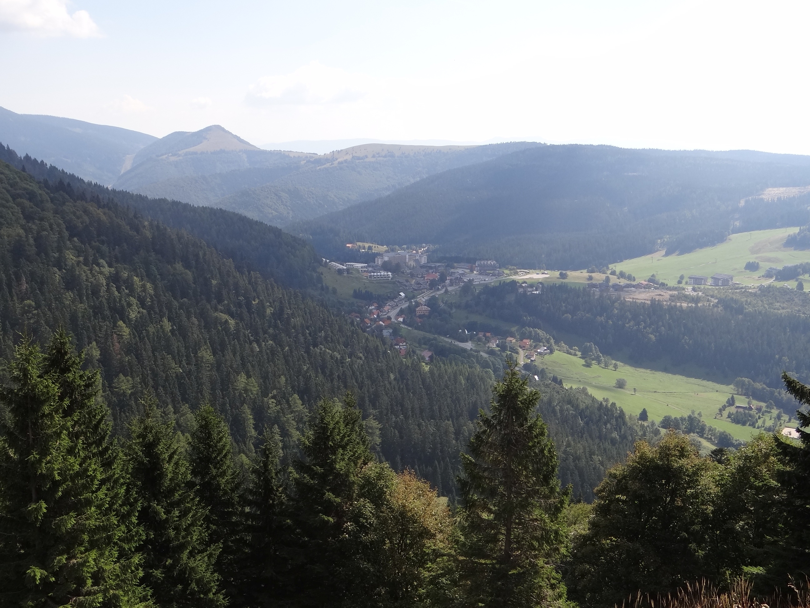 Starohorské vrchy. View from Zvolen